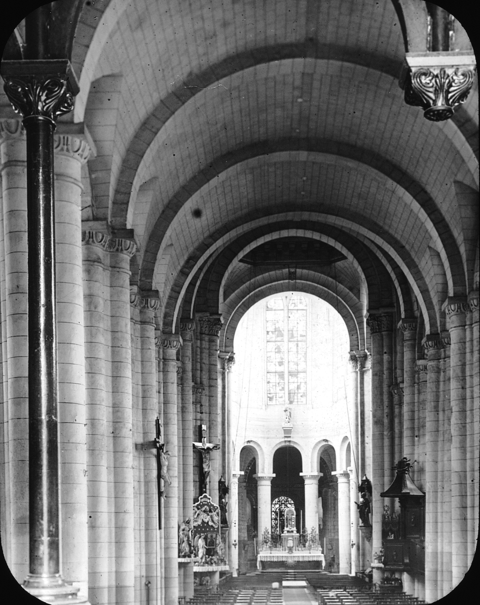 Church of Montierneuf, Poitiers, France, 1903. [Church of Montierneuf. Poitiers nave]. Brooklyn Museum Archives, Goodyear Archival Collection (S03_06_01_003 image 909). Help us map this image by using Suggestify to suggest a location for it.